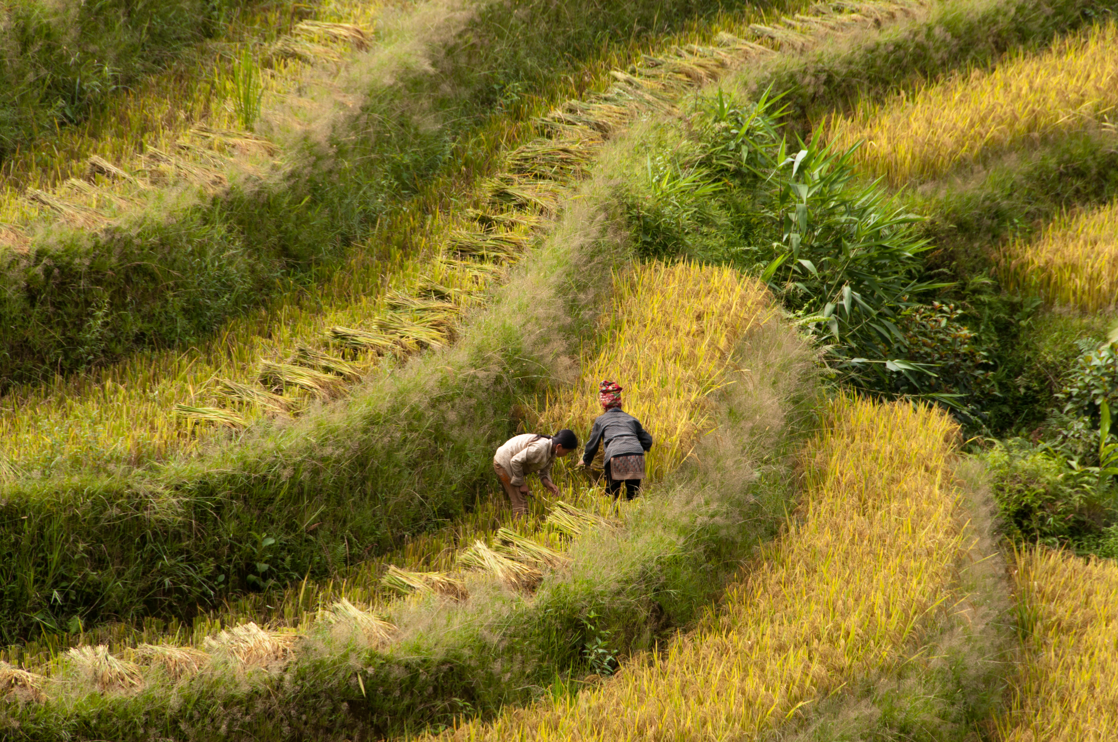 Terraced fields, Sa Pa, Vietnam